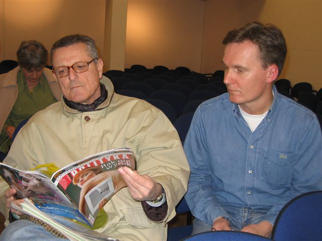 Roberto Salvadori (b. 1943), Italian writer and essayist and Marek Zagańczyk (b. 1967), Polish essayist and editor